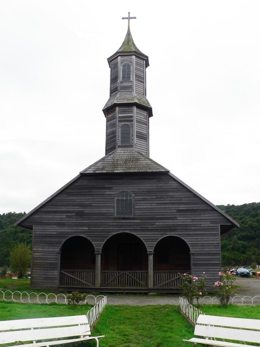 San Juan's Church at Dalcahue, Chiloé Island, Chile. UNESCO World Heritage Site.